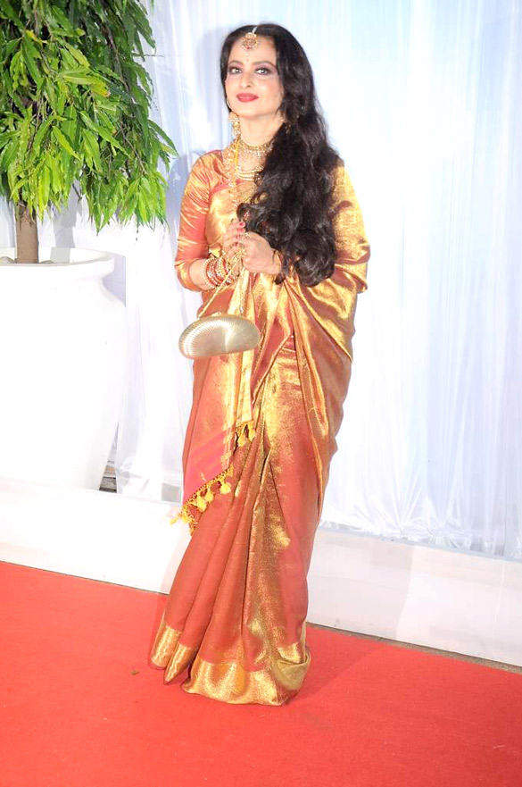 Rekha at Esha Deol's wedding reception